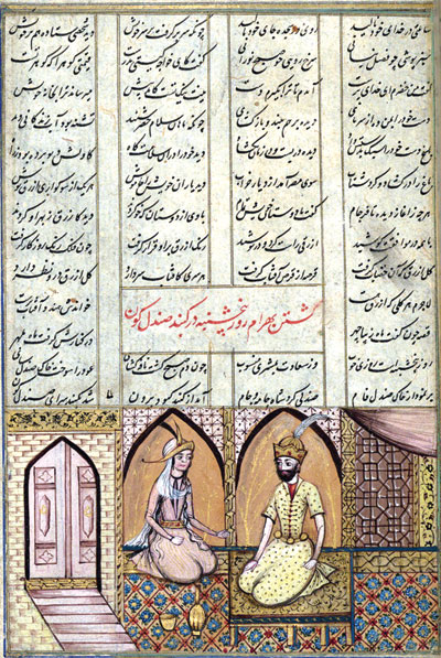 This folio from Walters manuscript W.608 depicts Bahram Gur in the sandalwood pavilion.